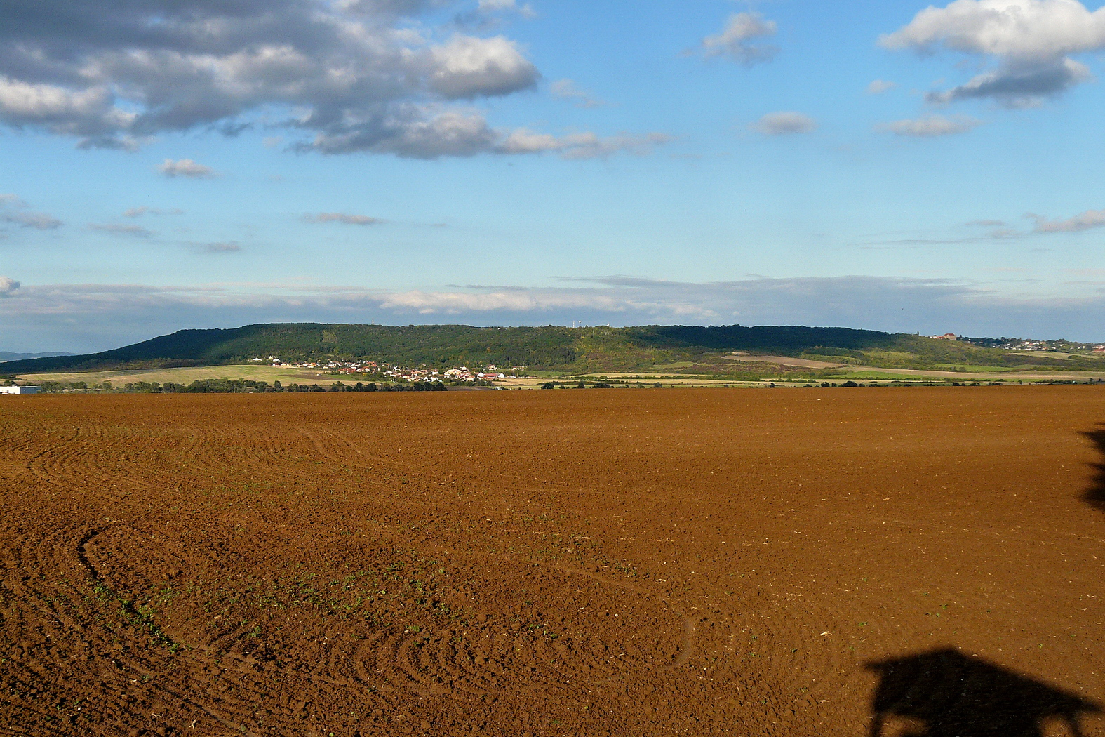 Chloumecky ridge from Strašnov wood